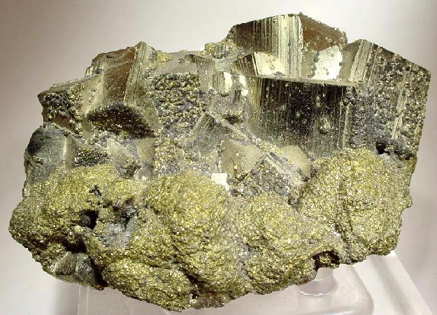 Pyrite, Chalcopyrite, Sphalerite Locality: Colorado, USA (Locality at ) An EXCELLENT and VERY SHOWY cluster of brassy, striated pyrite cubes to 2.1 cm with a bed of sparkly, micro-crystallized chalcopyrite in the front. Some of the pyrite cubes are preferentially dusted with tiny sphalerite crystals. This aesthetic piece is from an unknown Colorado locality. Very trivial bruising to a couple of pyrite cube edges. Choice material from the Lewadny Collection. 8.8 x 6.3 x 4.5 cm